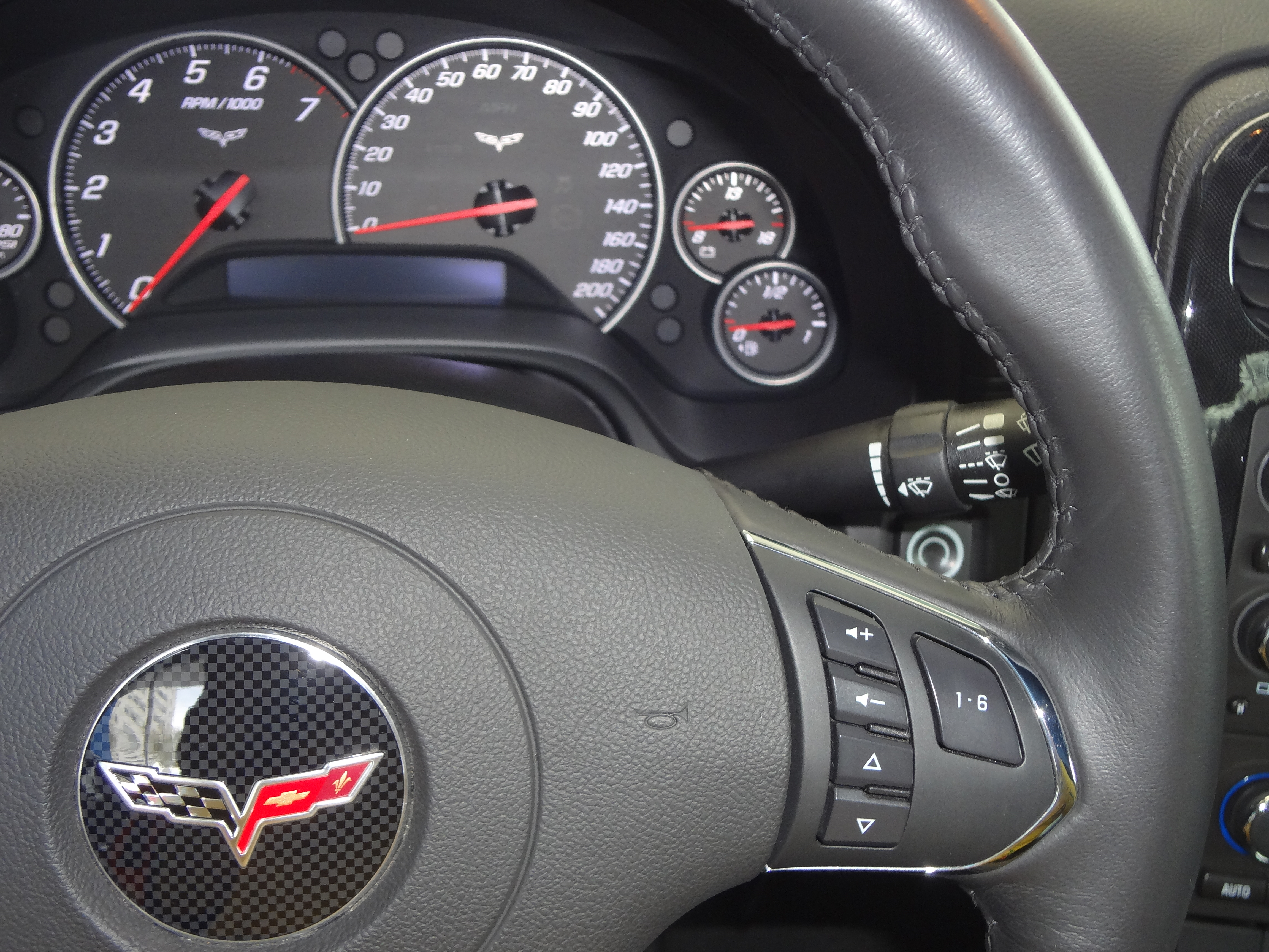 Chevrolet Corvette (C6) Photography by David Adam Kess